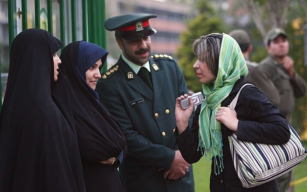 The beginning of the First vice squad of guidance patrol in Tehran - 22 April 2006. for more, Fars archive (in Persian)